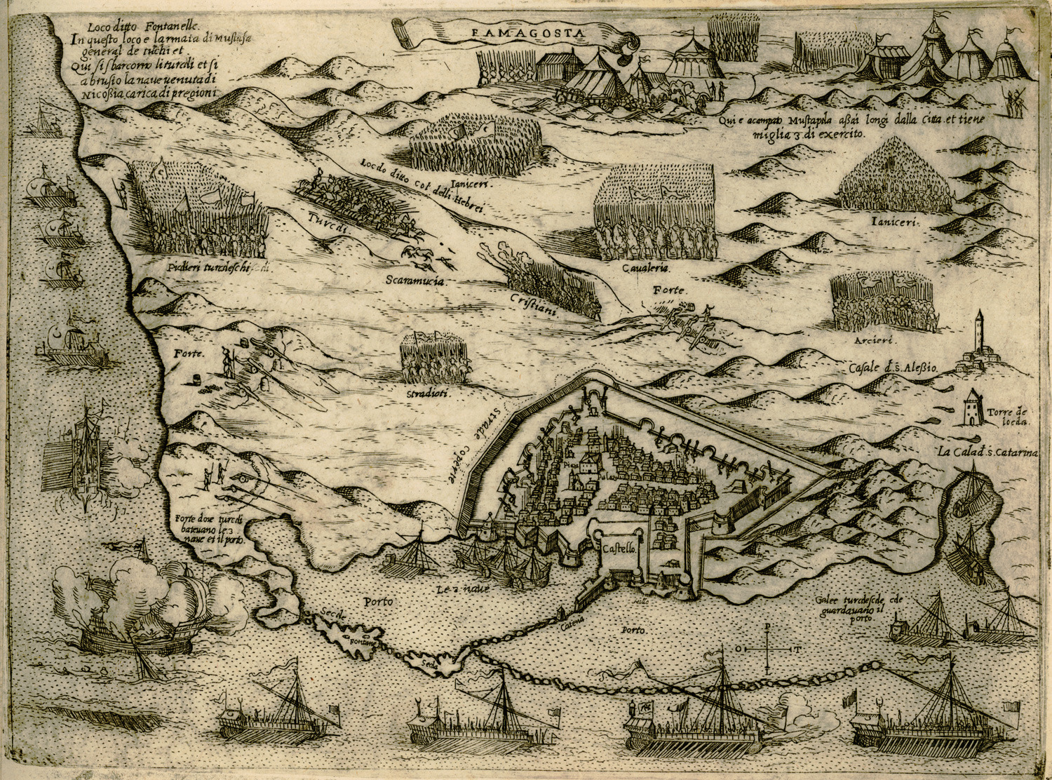 Giovanni Francesco Camocio. Isole famose porti, fortezze, e terre maritime sottoposte alla Ser.ma Sig.ria di Venetia, ad altri Principi Christiani, et al Sig.or Turco, Venice, alla libraria del segno di S.Marco (1574)